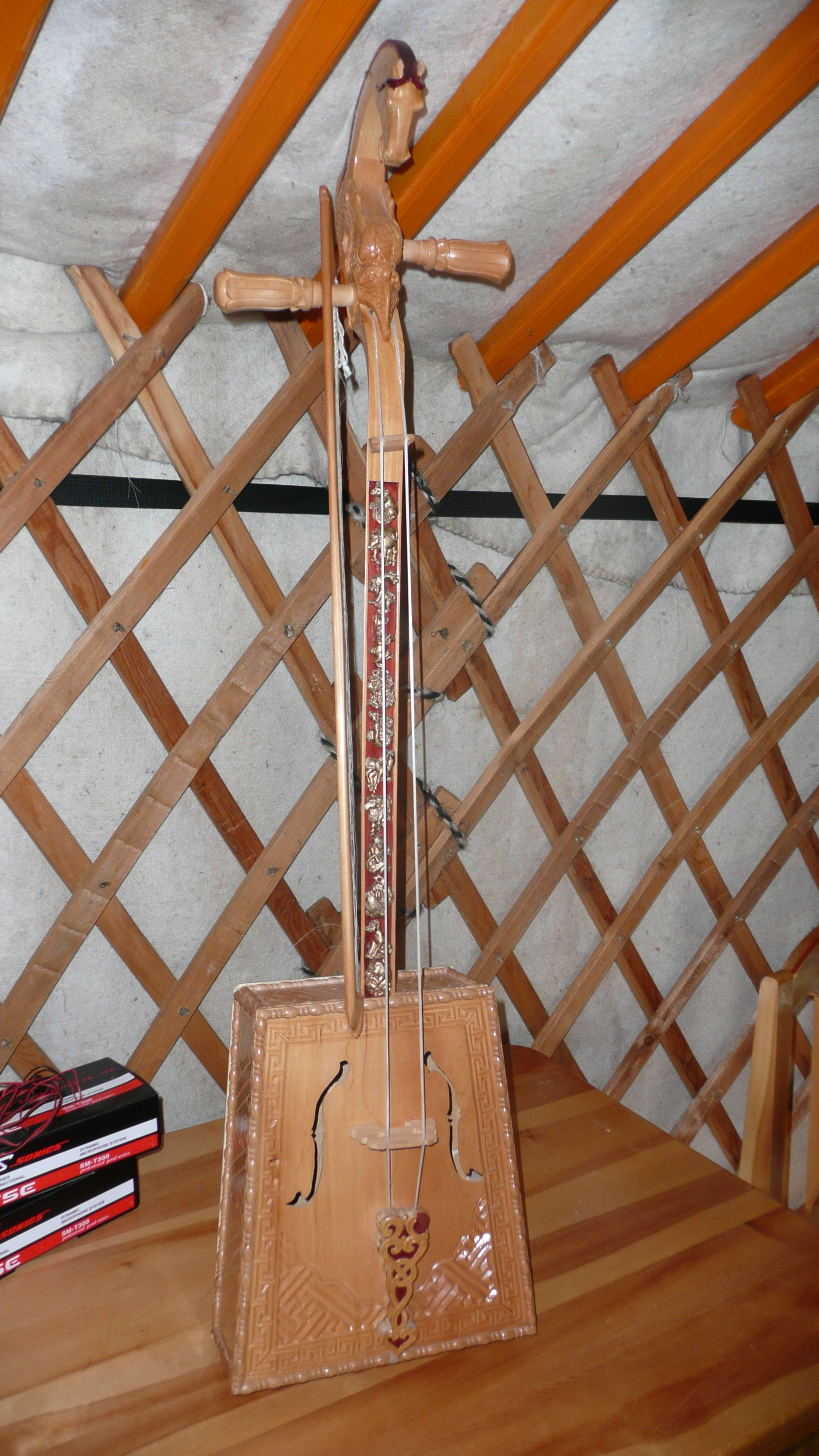 Mongolian horse violin